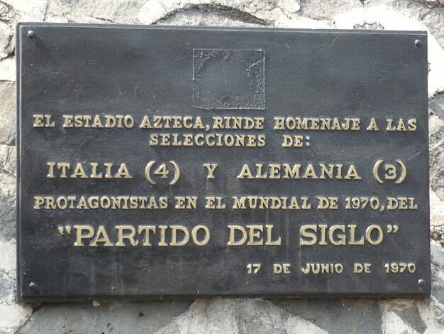 Commemorative plaque at Stadium Azteca, Mexico City, for the so called “Partido del Siglo” (Game of the Century), the association football game between Italy and West Germany, which Italy eventually won 4-3 a.e.t. after a dramatic match. The plate is written in Spanish and its translation reads: "The Azteca Stadium pays homage to the National Teams of Italy (4) and Germany (3), who starred in the 1970 FIFA World Cup, the "Game of the Century". June 17, 1970."